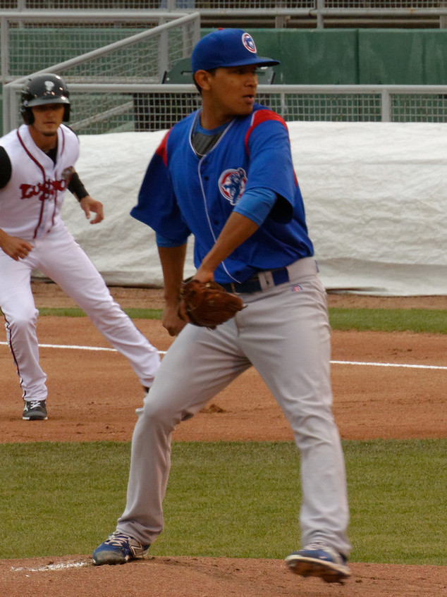 Adbert Alzolay on the mound for the South Bend Cubs during a 2016 game at Cooley Law School Stadium in Lansing, Michigan